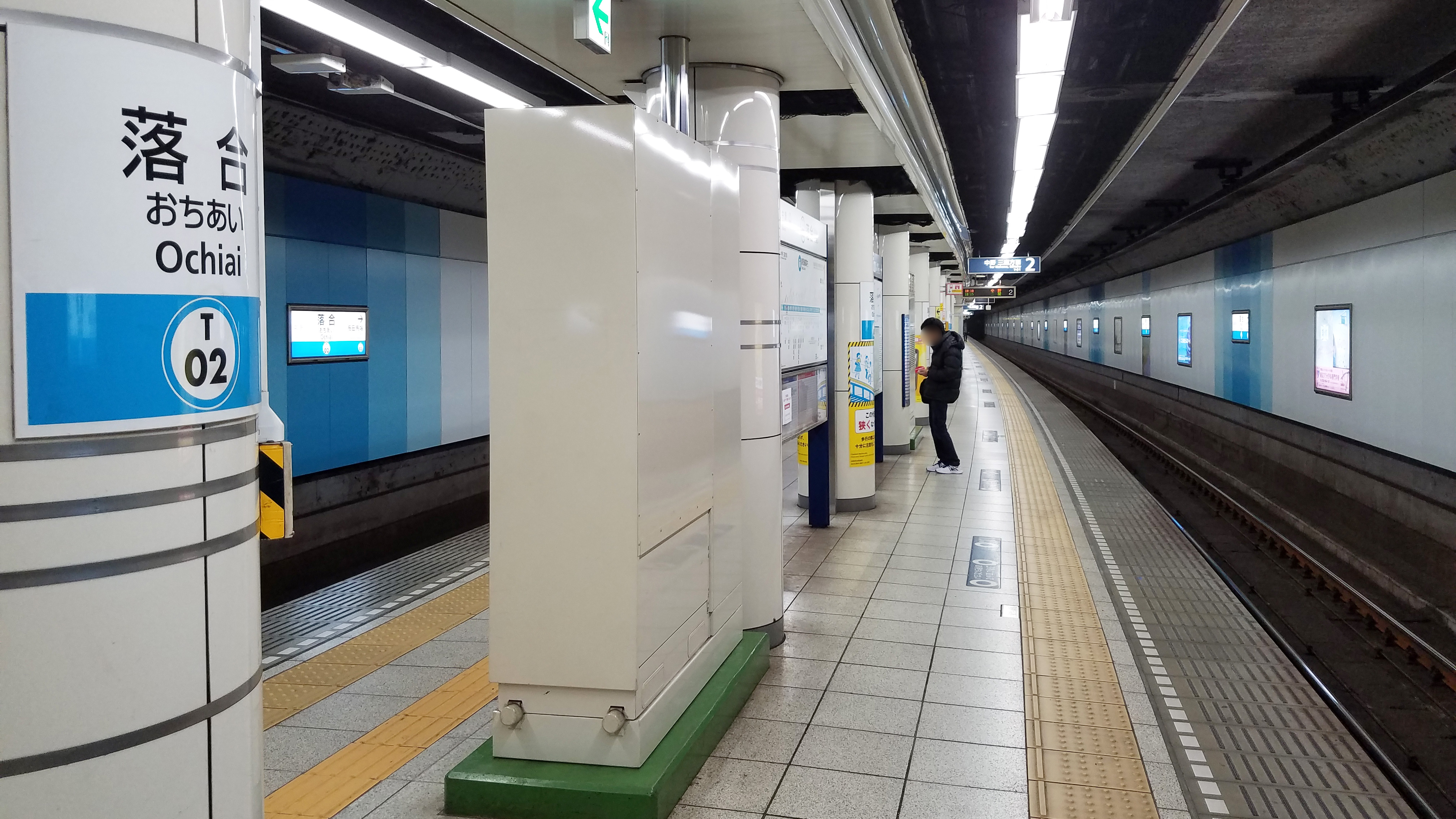 The platform at Ochiai Station on the Tokyo Metro Tōzai Line in Shinjuku ward, Tokyo, Japan